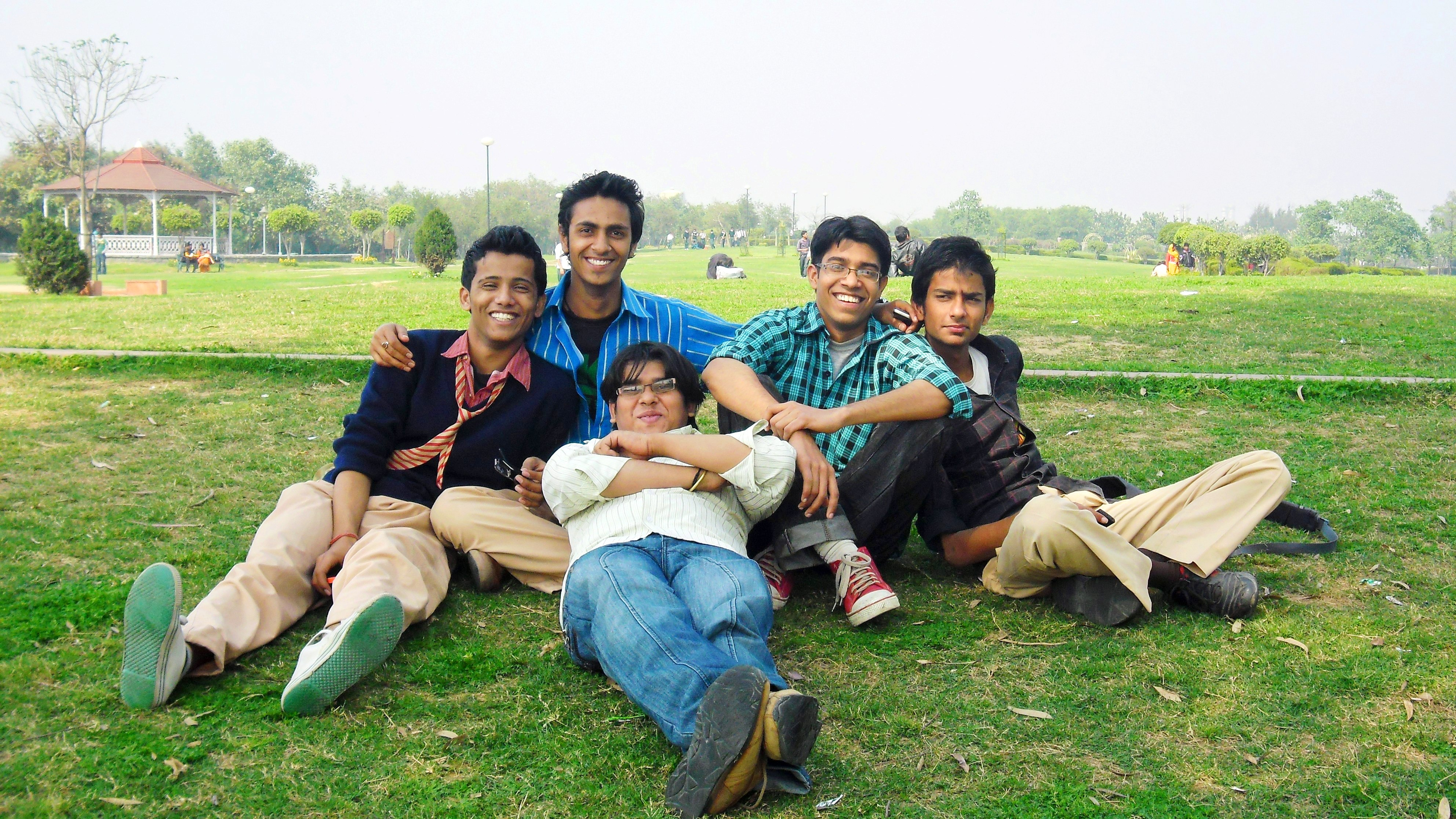 Indian Friends